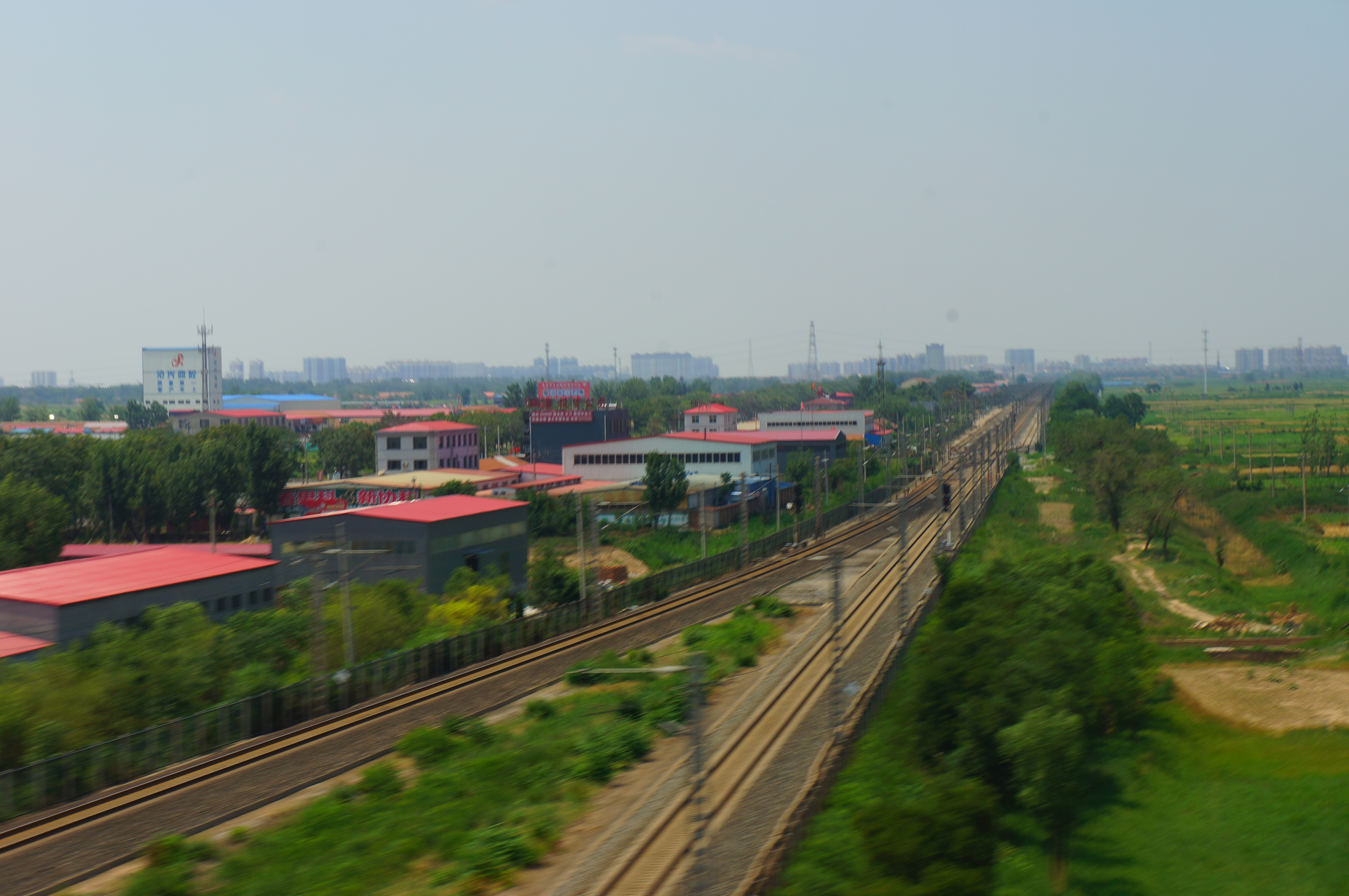 201606 Liyao Station